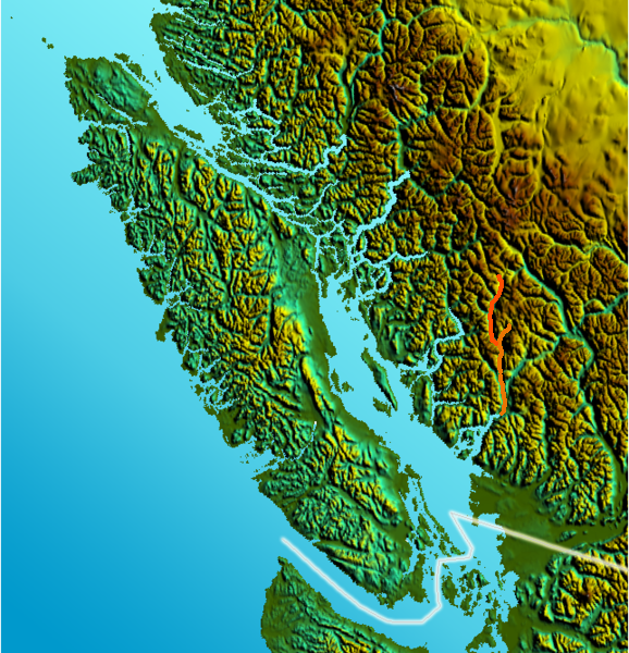 based on 578px-Vancouver_Island-relief.png which is in Wikimedia Commons